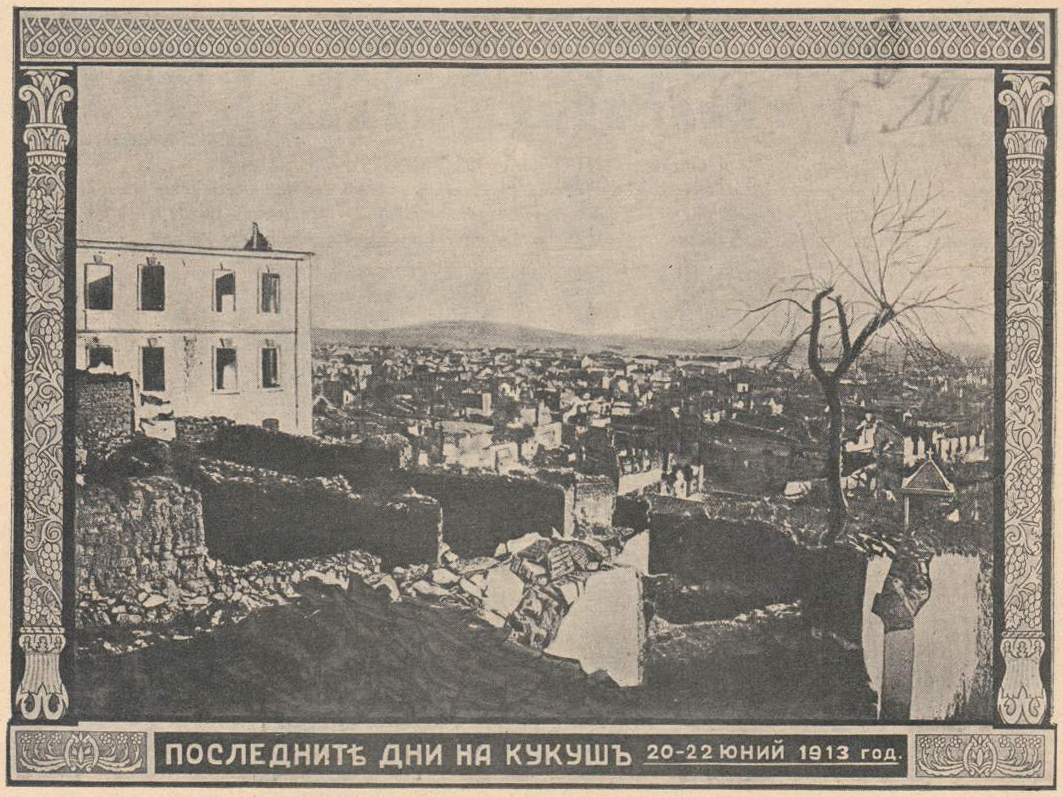 The burned city of Kilkis after the Second Balkan War.